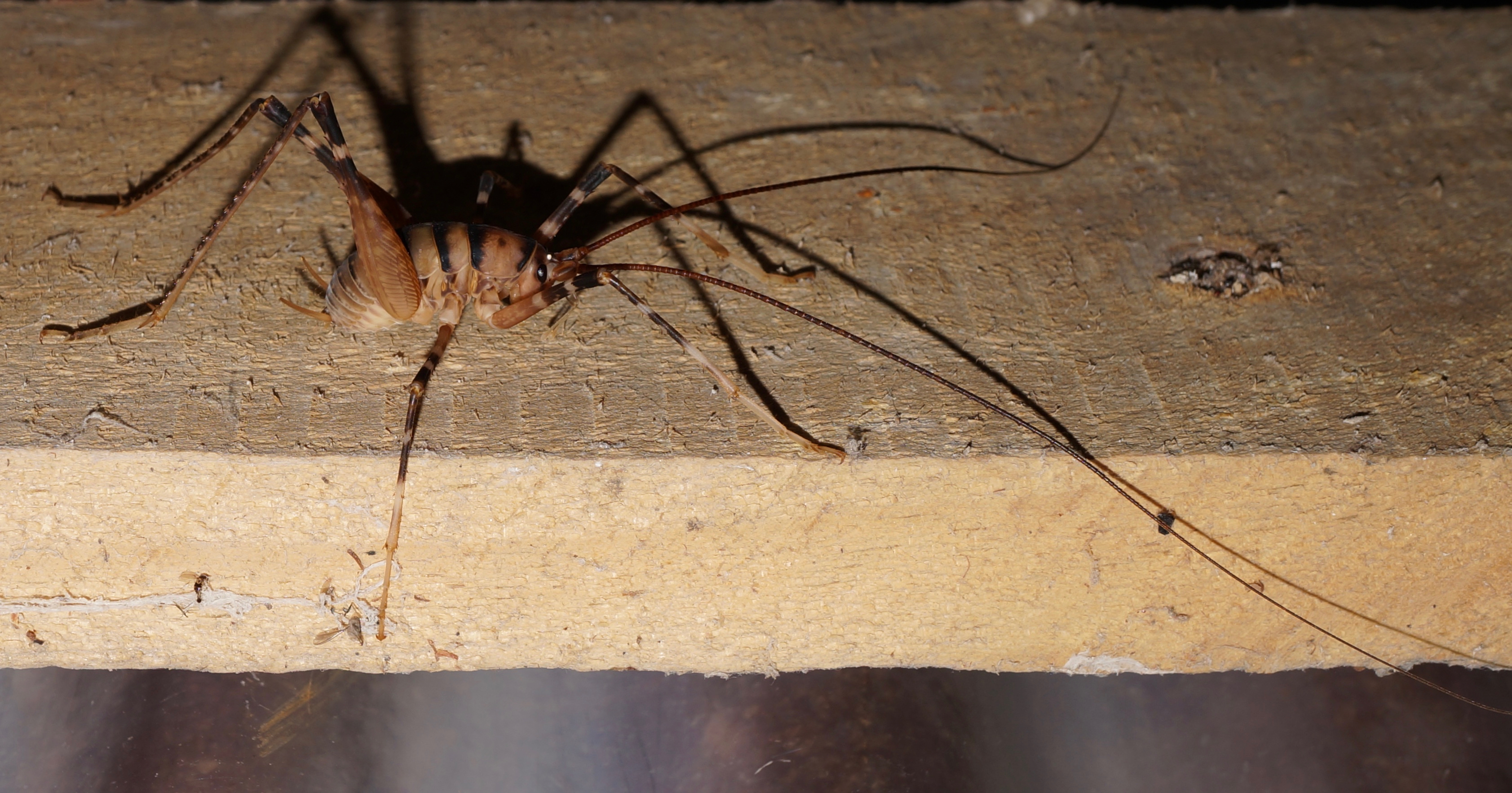 nocturnal insect in the family Rhaphidophoridae (cave weta), species is Pachyrhamma edwardsii, male, photographed Golden Bay, New Zealand